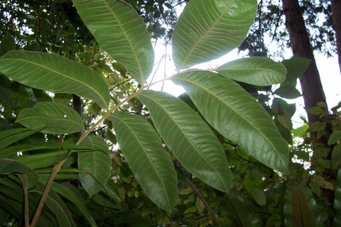 Diploglottis australis juvenile